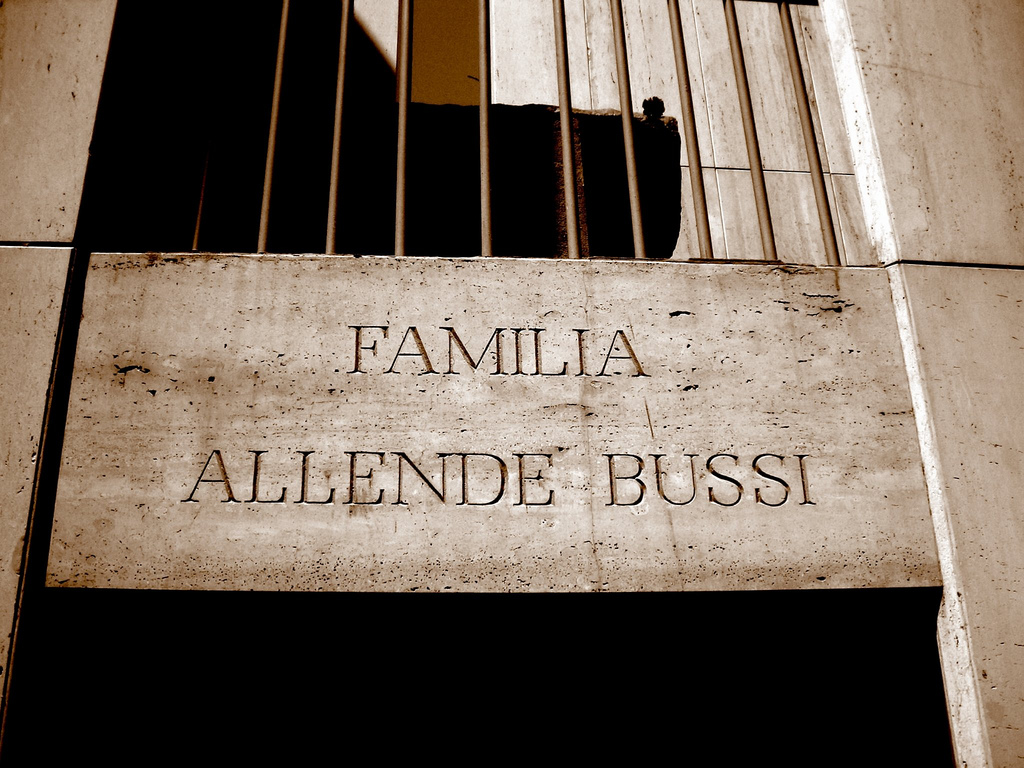 Familia Allende Bussi, found by the president of Chile Salvador Allende, and his wife, Hortensia Bussi.